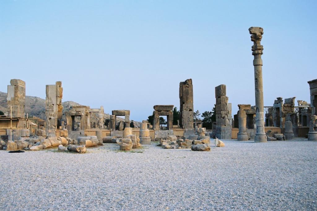 View of the Hundred Columns Hall, from the northern courtyard, Persepolis, Iran.